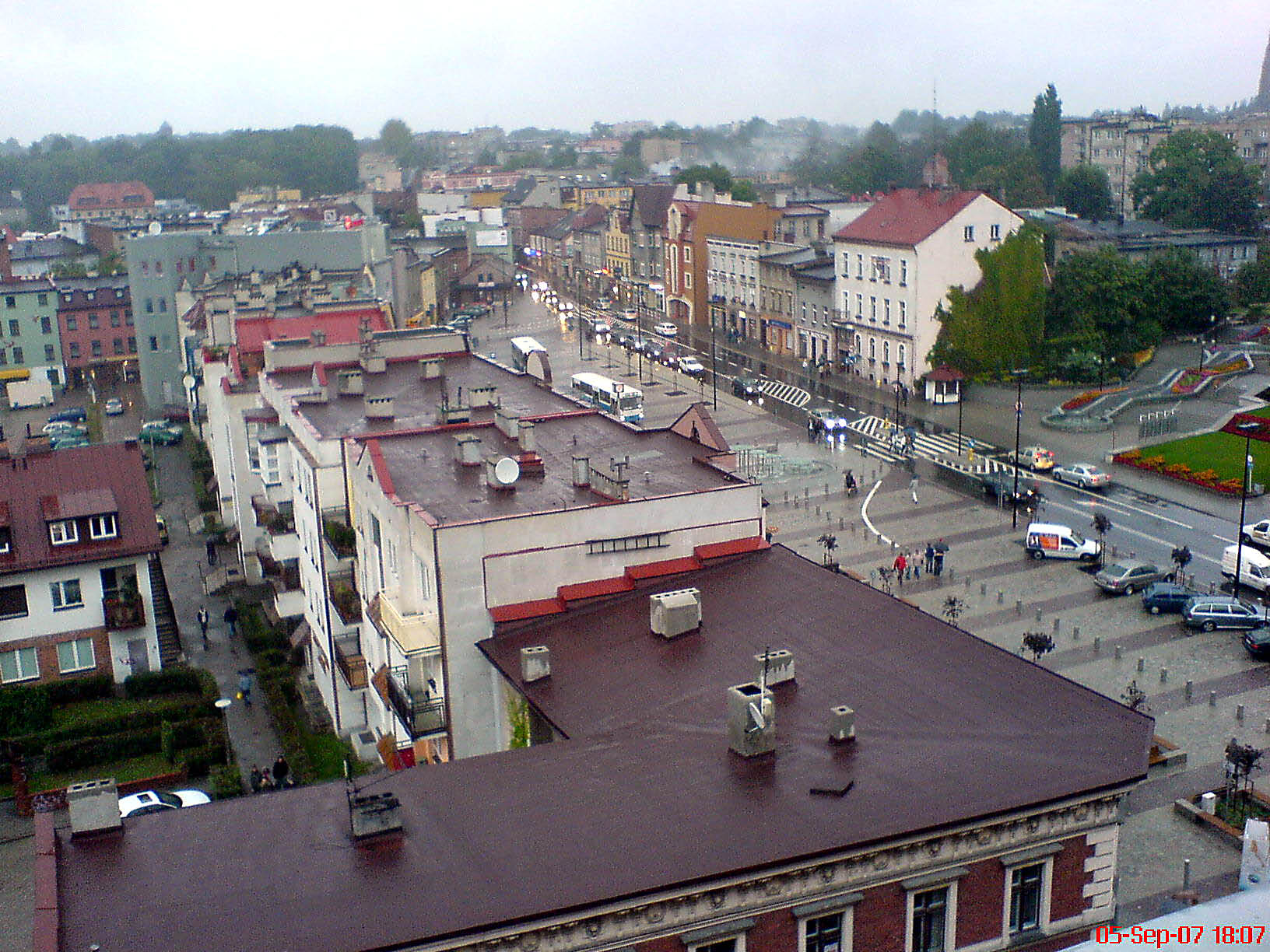 The view of Rybnik from Focus Park